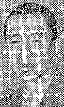 Jōji Hattori, Manager of the Technology Department, the Nagoya Aerospace Systems Works, the Mitsubishi Heavy Industries, Ltd., was presented the "Nagao Aerospace Engineering Bounty" on October 21, 1940.